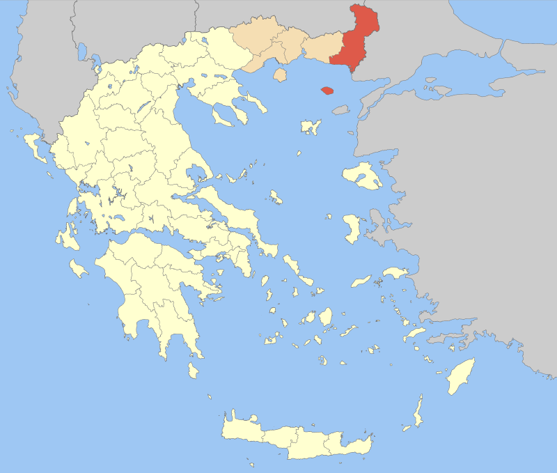 Locator map of Evros prefecture (Νομός Έβρου) in Greece